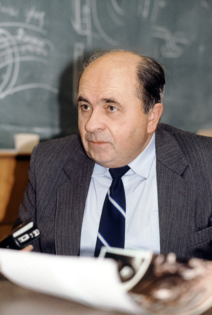 “Russian physicist Boris Kadomtsev”. Boris Kadomtsev, plasma physics department director of the Kurchatov Nuclear Energy Institute, Full Member of the U.S.S.R. Academy of Sciences since 1970.